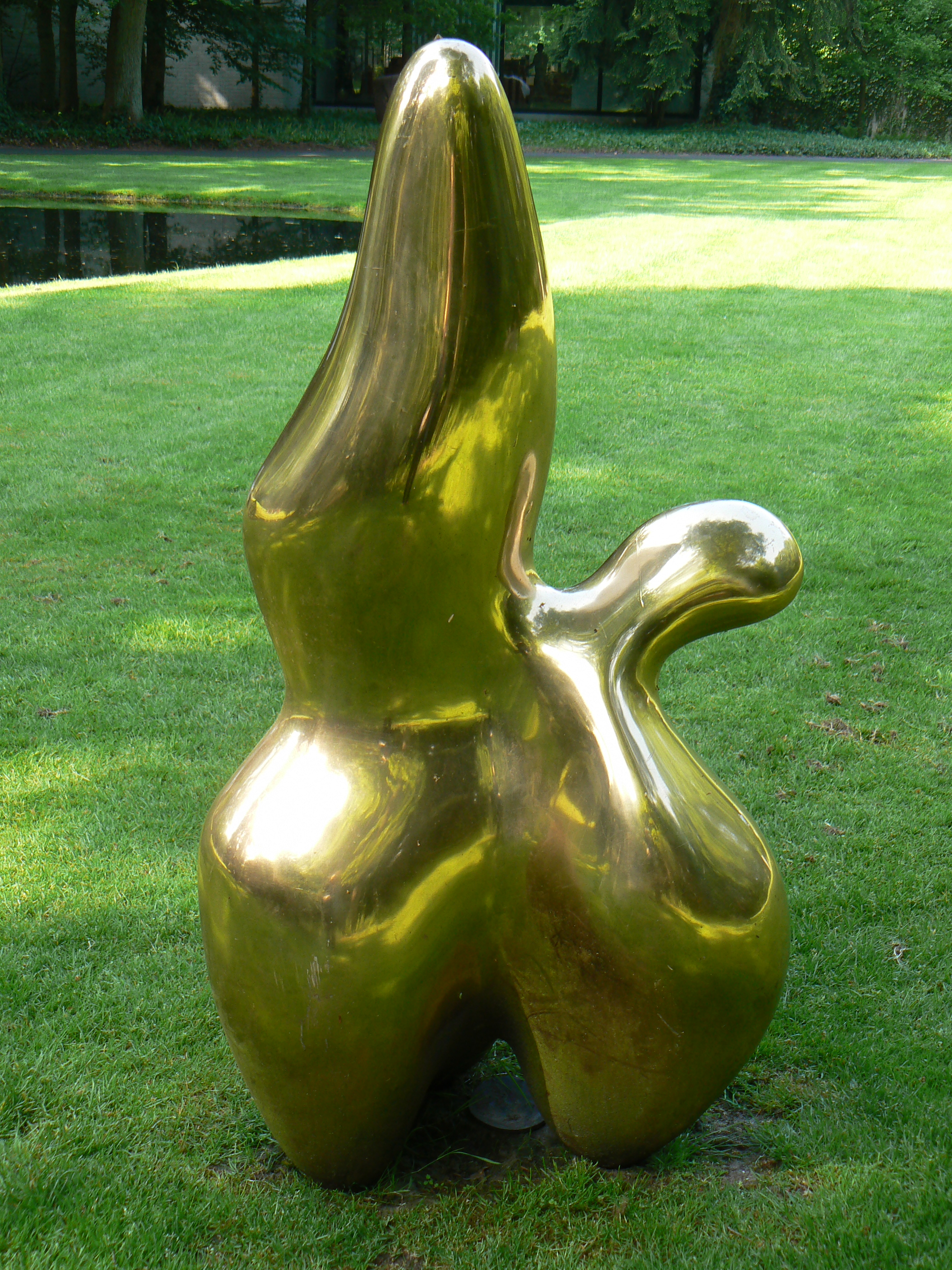 Sculpture Pastor de Nubes (1953) by Hans Jean Arp in sculpturepark KMM/Kröller-Müller Museum - The Netherlands.